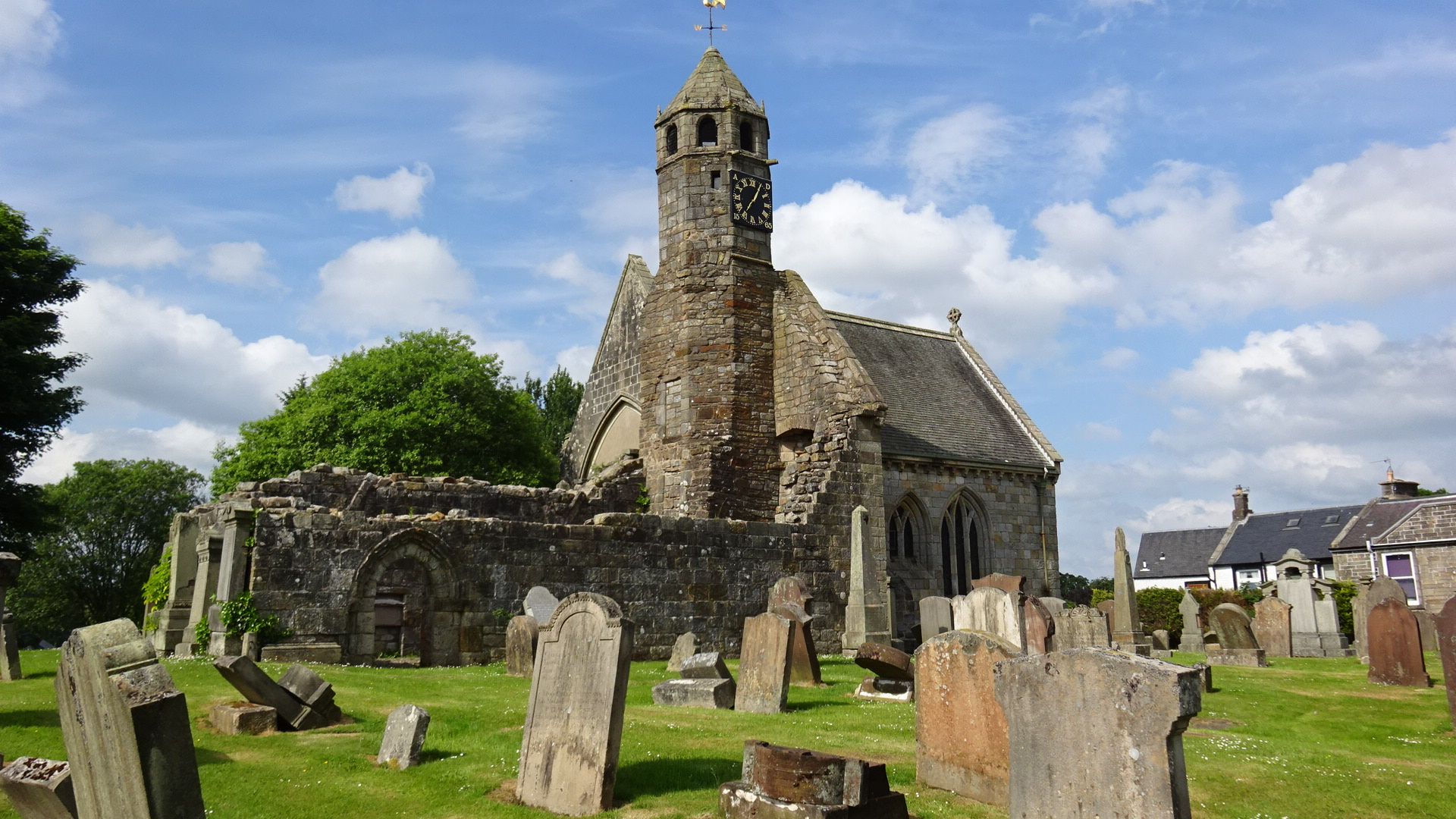 St Bride's Church, Douglas, South Lanarkshire - view from the main street entrance. Ruined Inglis Aisle, Choir and clock tower.